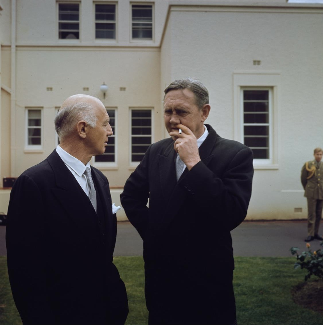 Prime Minister John Gorton with his Deputy William McMahon after the swearing-in of the Second Gorton Ministry